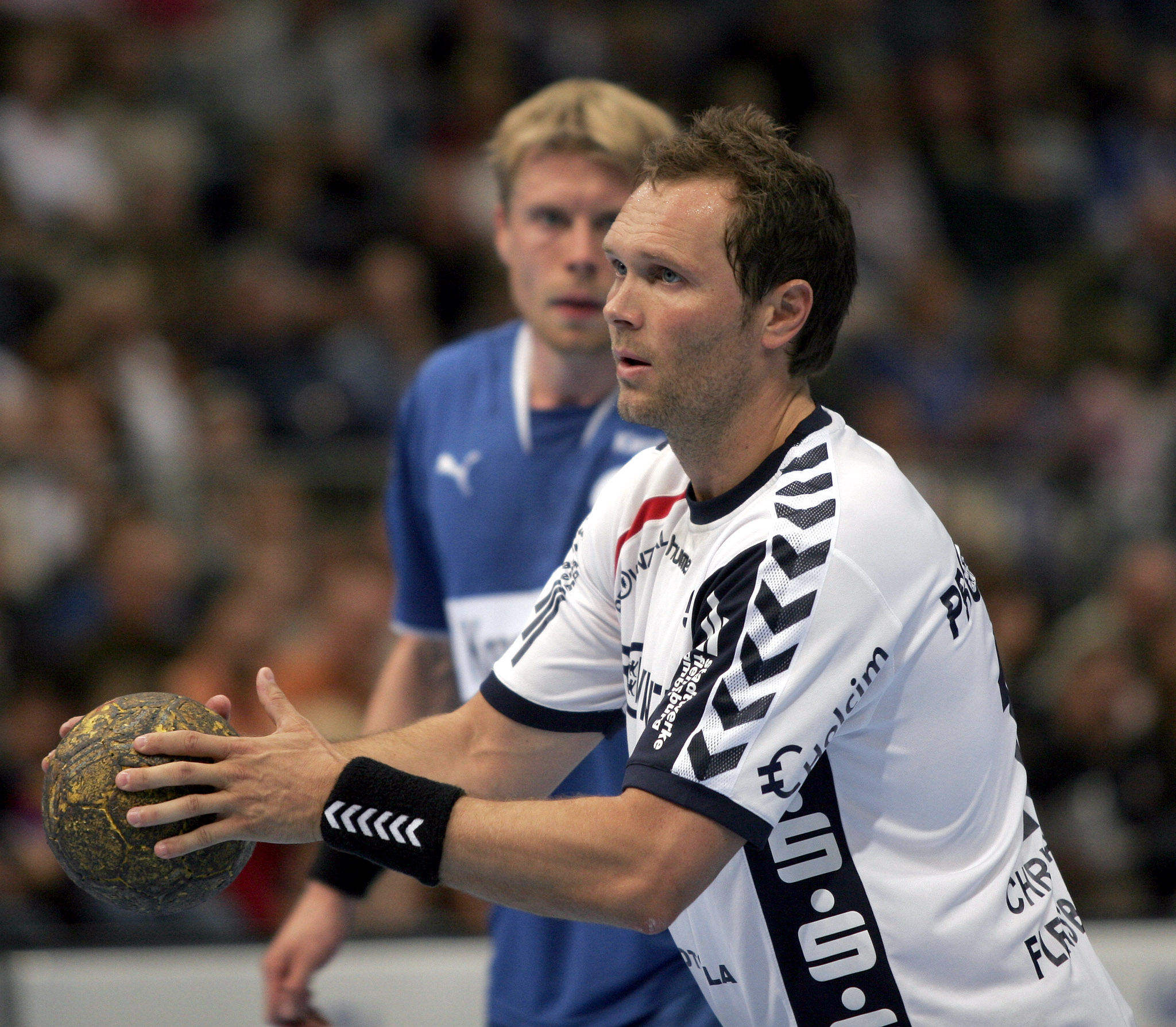 Lars Christiansen, handball player of SG Flensburg-Handewitt, in the Kölnarena during the gane VfL Gummersbach - SG Flensburg-Handewitt